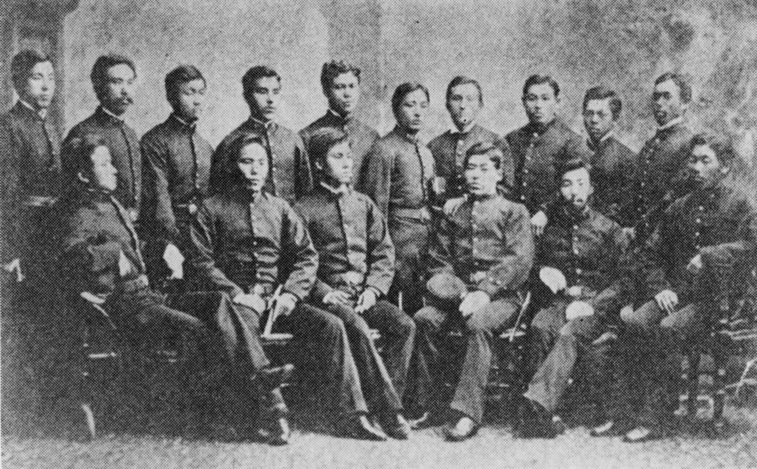 Japanese naval academy graduates, pictured at San Francisco in 1875 or 1876. Seated first from left is Yukishita Kumansuke, then Kamimura Hikonojō, the back row, 5th from left Yamamoto Gonnohyōe, 9th Kataoka Shichirrō